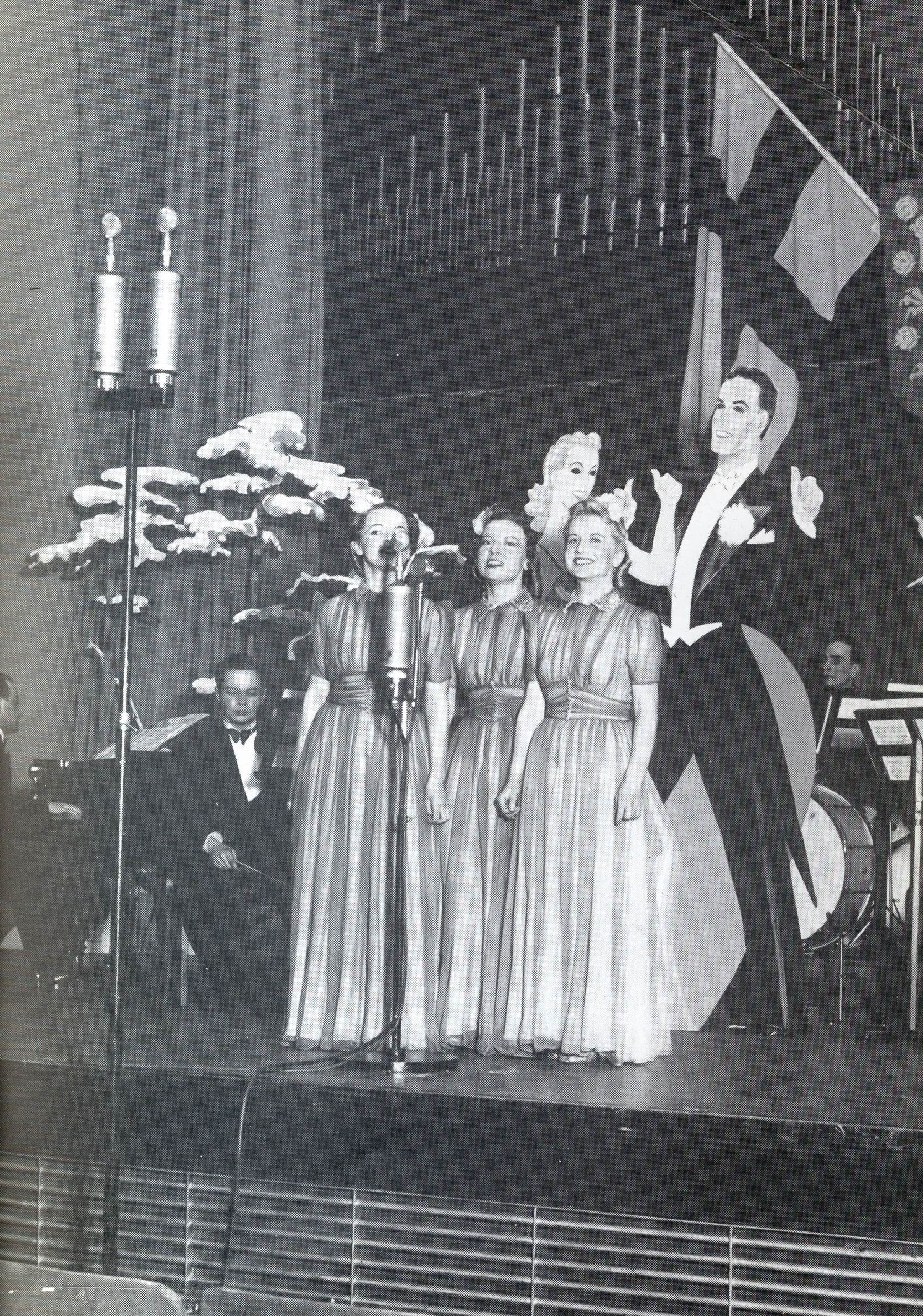 Harmony Sisters finnish singing group